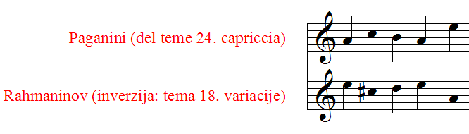 Inversion of Rachmaninov Paganini Rhapsody theme (in slovenian language)